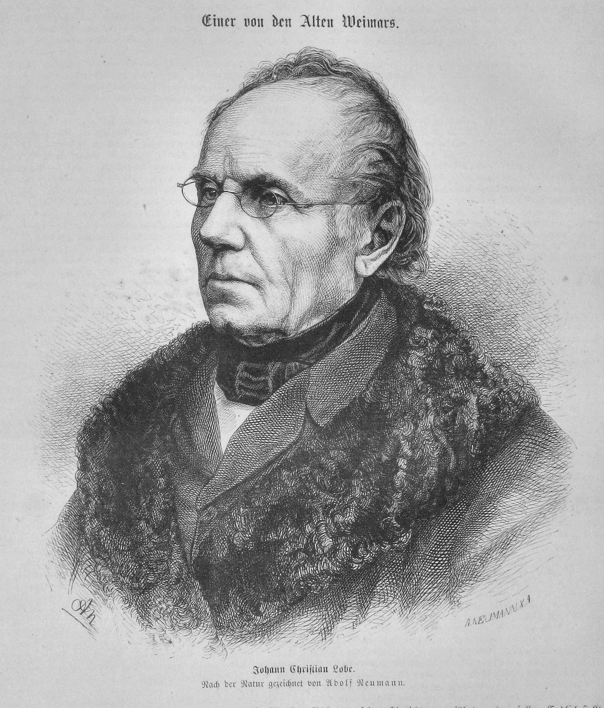 caption: "Johann Christian Lobe. Nach der Natur gezeichnet von Adolf Neumann."